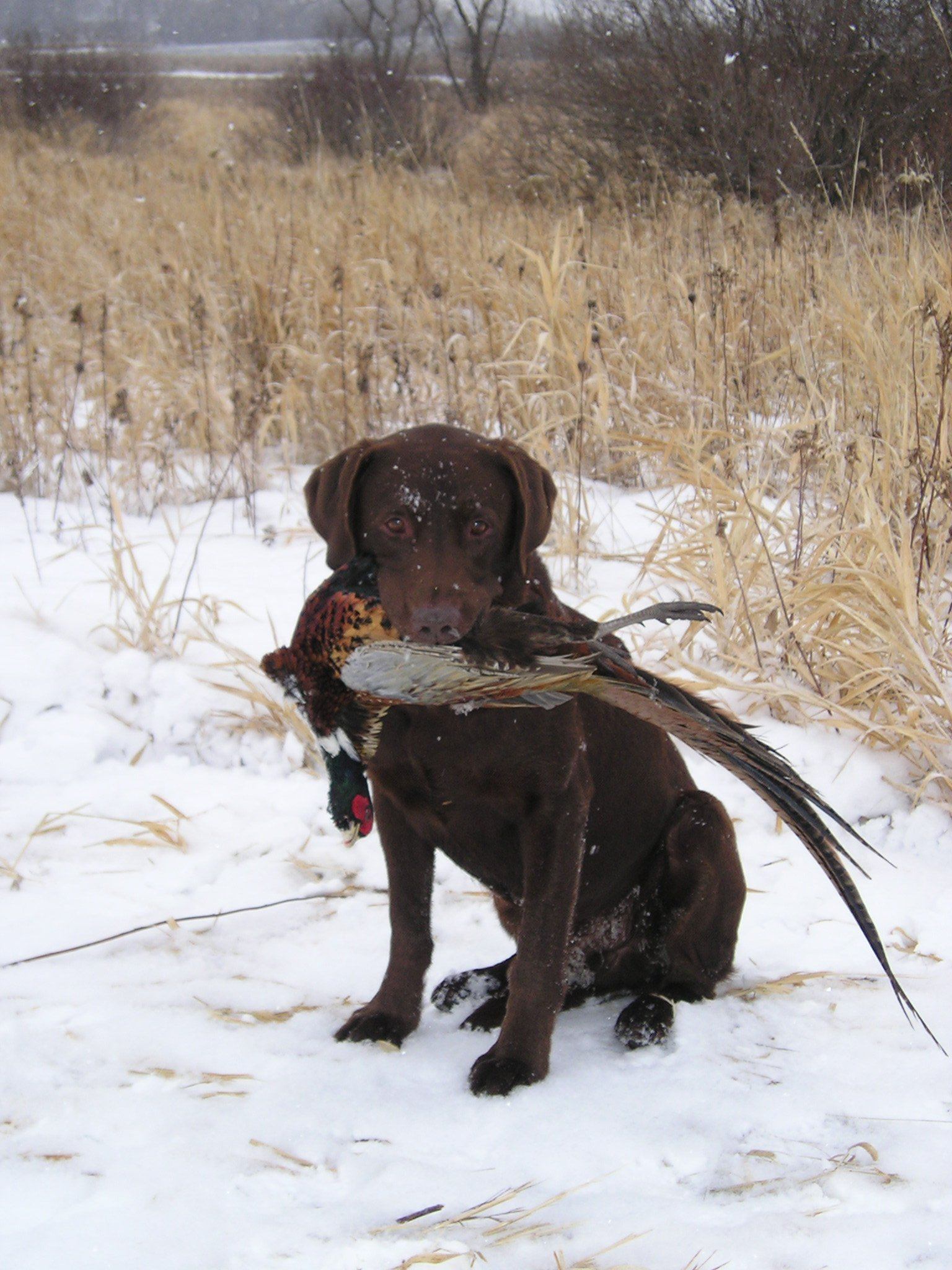 A chocolate Labrador Retriever with a dead Ring-necked Pheasant (Phasianus colchicus).